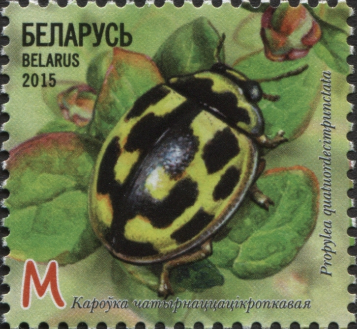 Stamps of Belarus, 2015